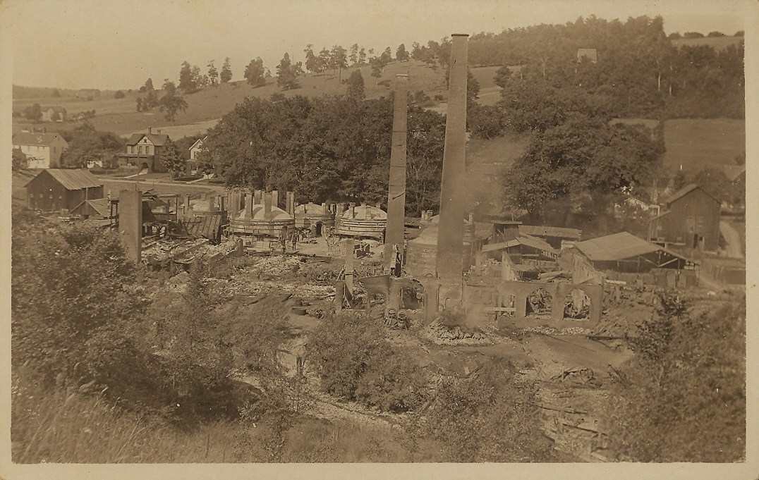 Postcard picture of the aftermath of a fire that destroyed the Terra Cotta Tile Co. factory in Alfred, New York. Smoke can be seen in the middle of the picture; eBay store Web page states: "This is a real photo postcard showing the Fire aftermath of the Terra Cotta Tile Plant in Alfred New York. Message on the back says that this is the Terra Cotta that burned last night. Postmarked Alfred NY on January 1st 1910"